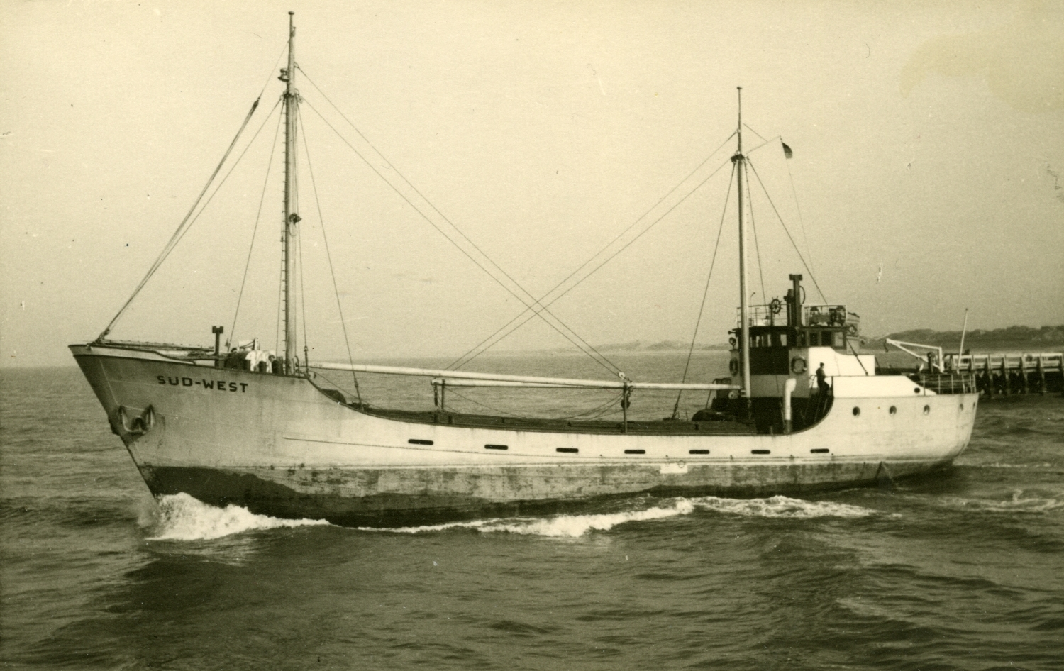 German coaster SÜD-WEST (IMO 5160946) built at J.J. Sietas Schiffswerft, Hamburg-Neuenfelde, in 1950 (yard № 347), lengthened in 1954, collection J. Robert Boman (1926 - 2002) owned by Sjöhistoriska museet.